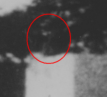 Cropping of the Polaroid photograph of the assassination of President John F. Kennedy, taken one-sixth of a second after the fatal head shot.